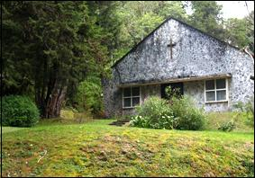 All Soul's Church is located at Jalan Perjabat Hutan, Taman Sedia, 39000, Tanah Rata, Cameron Highlands, Pahang, West Malaysia.